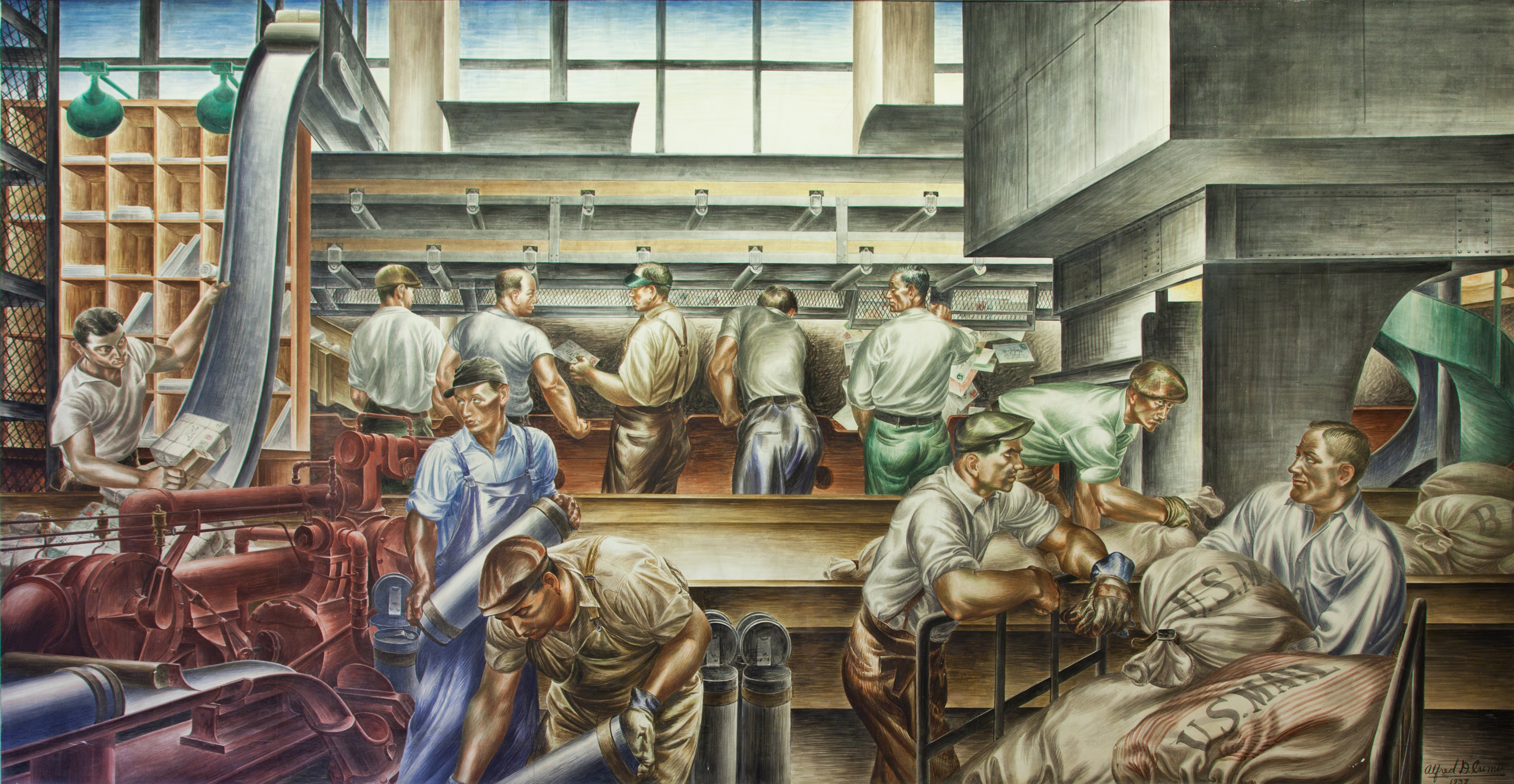 Photograph of mural "Post Office work room," by Alfredo de Giorgio Crimi at the Ariel Rios Federal Building in Washington, D.C.Notes: Date: 1937; dimensions: 7' x 13' 6". Photographed as part of an assignment for the General Services Administration. Title, date and keywords from information provided by the photographer. Credit line: Photographs in the Carol M. Highsmith Archive, Library of Congress, Prints and * Gift; Carol M. Highsmith; 2009; (DLC/PP-2009:083). Forms part of: Photographs in the Carol M. Highsmith Archive. More information at The Living New Deal Mural information from the General Services Administration: Post Office Work Room shows the next stop in the mail's journey, after its departure from the suburban station in the mural on the left, toward its final destination. To produce the mural, Crimi spent time in the New York General Post Office Building, now the James A. Farley Post Office Building, sketching equipment and postal employees. The result is an accurate and thoughtfully composed rendering of the multifarious activities of an urban post office. The design is anchored by the strong horizontal and perpendicular lines of the furniture and machinery, including a mail chute on the left and a conveyor belt in the background. Amid this equipment, men perform their tasks: in the right foreground, three men handle incoming mail bags; behind them, five men sort letters on the conveyor belt, organizing them by size before sending them to the stamping machine; on the far left, a man receives and sorts parcels sliding down the chute; and in the left foreground, two men send out mail via pneumatic tubes. The array of activity highlights the modern advances of the Post Office while capturing the human element of cooperation and attention to detail.